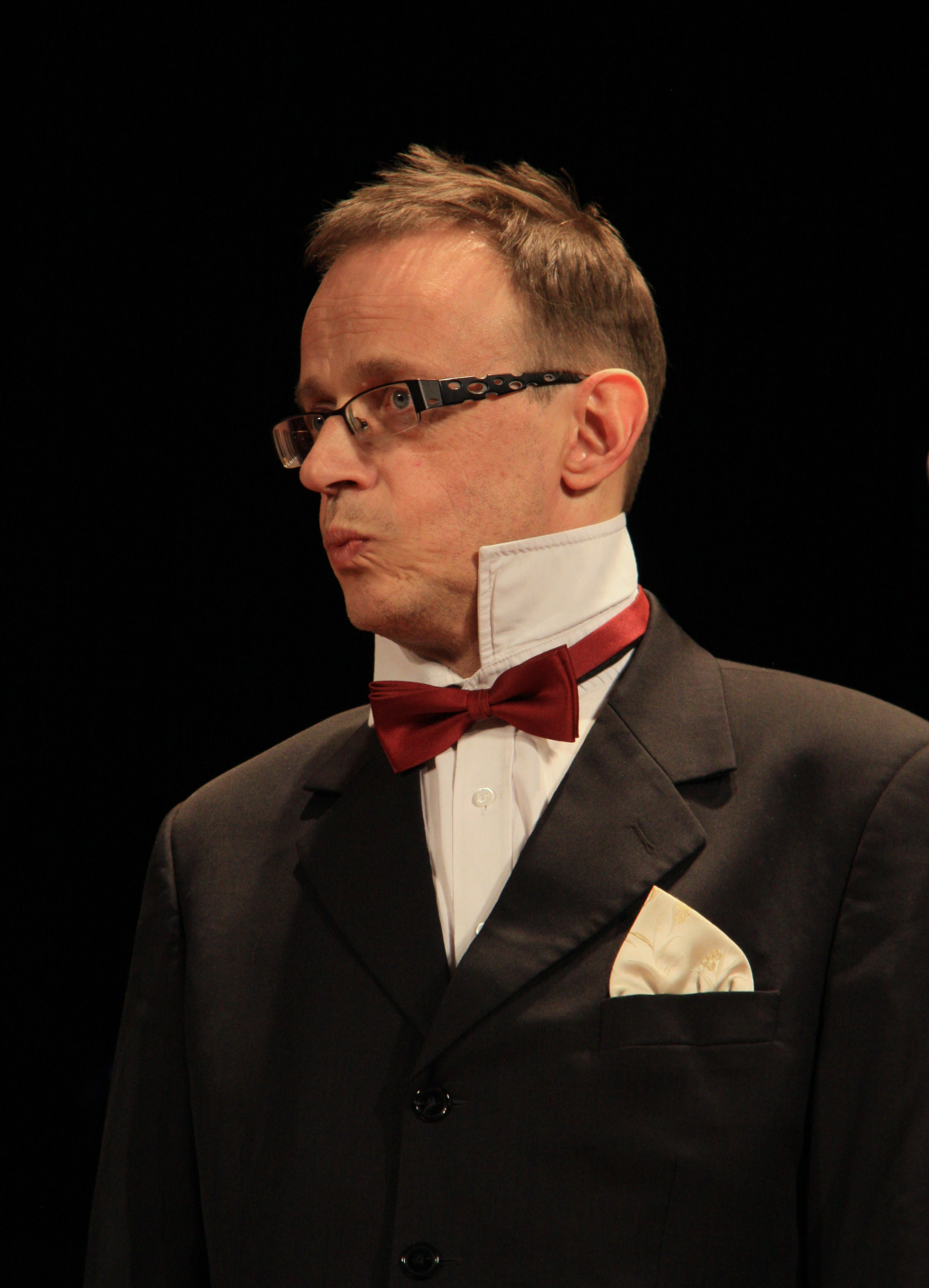 Maurice Polaski aka Moryś - Polish actor, musician and cabaret artist. BSCK, Busko-Zdrój, 25 January 2012